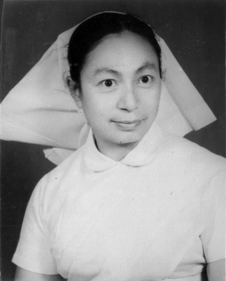 First female blood donor of Nepal and social worker Tara Devi Tuladhar (1931-2012) in nurse's uniform in 1961.